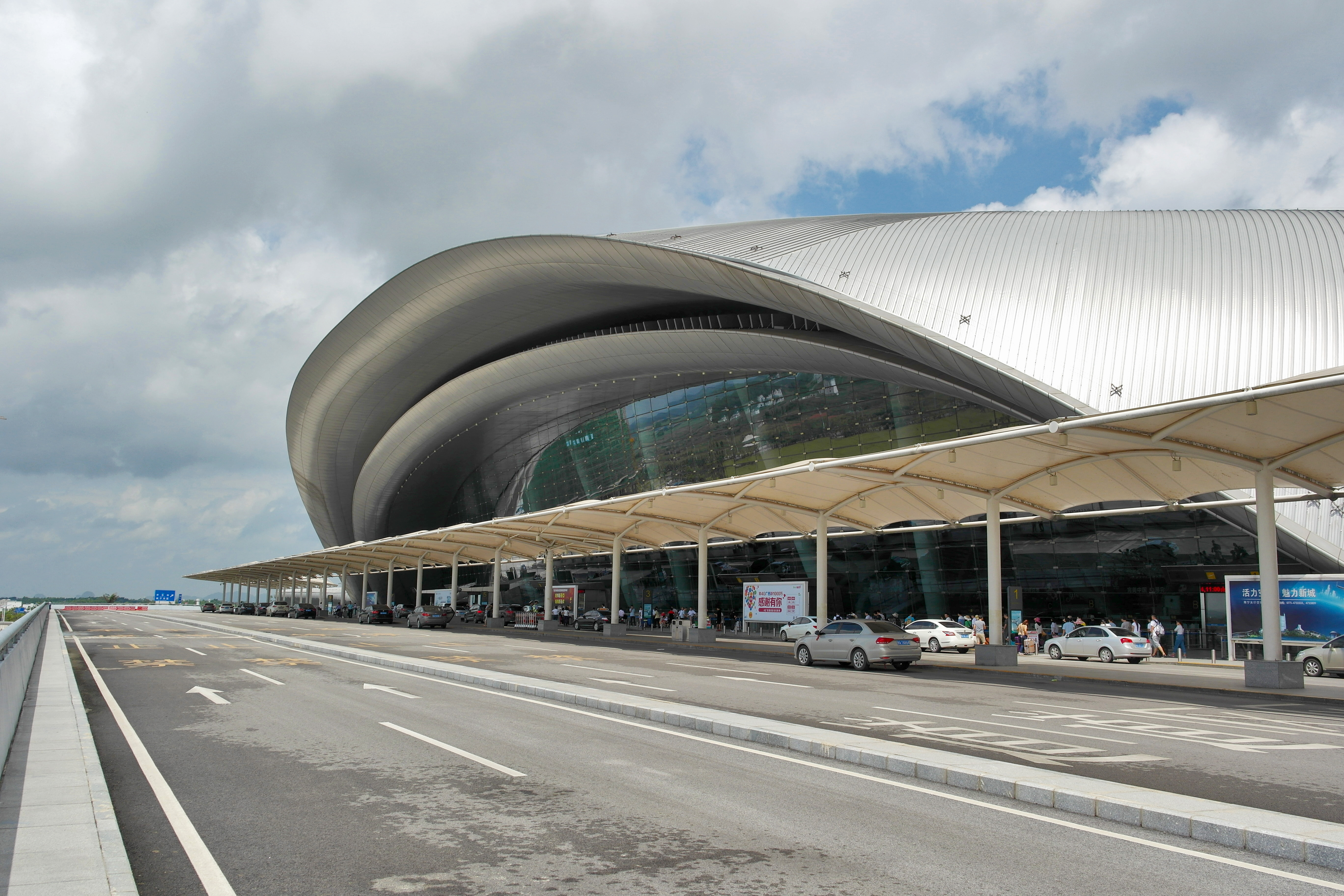 Wuxu airport main builiding departure overpass